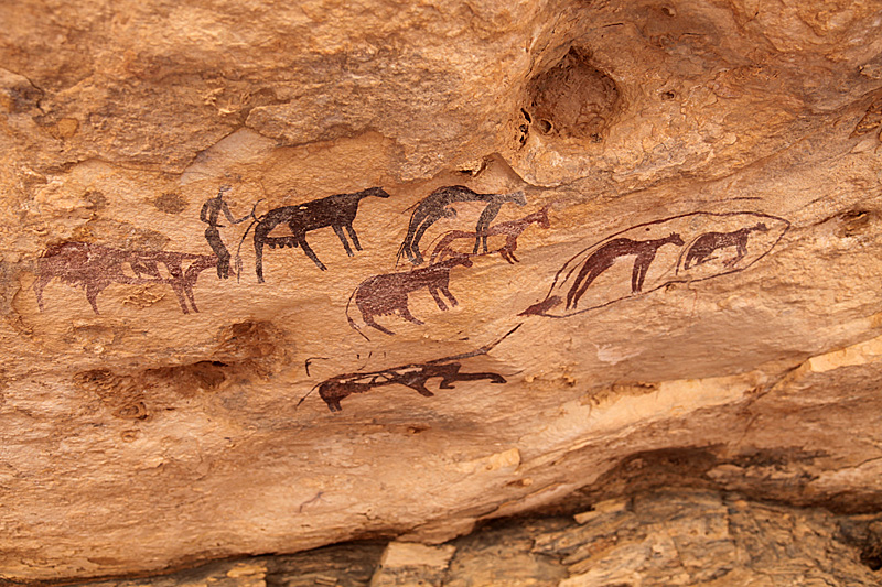 Rock painting of animals, Karkur Talh, Western Desert, Egypt & Sudan